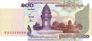 100 riel 2001 obverse